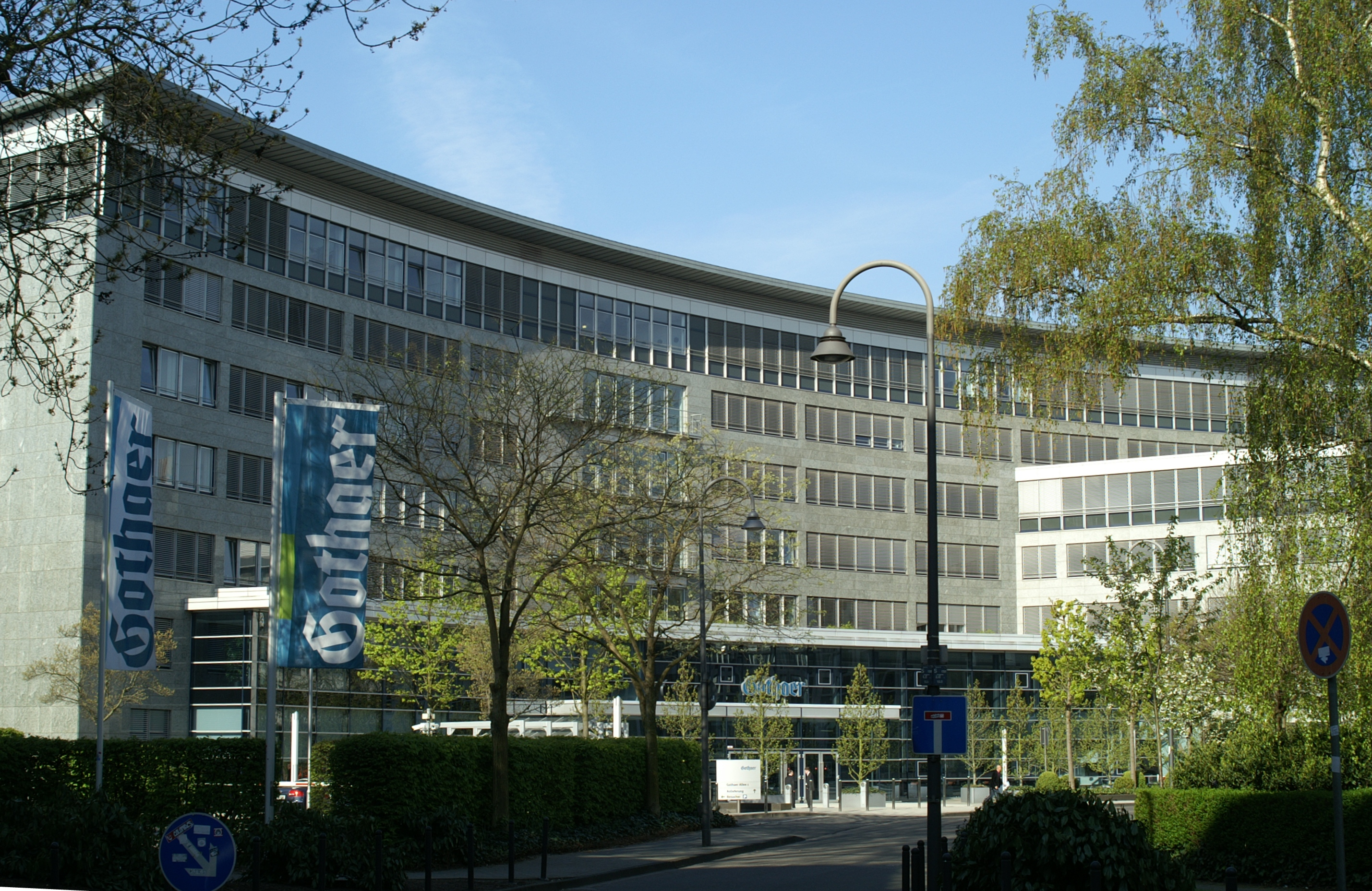 Gothaer Insurance, Officebuilding in Cologne-Zollstock, Germany